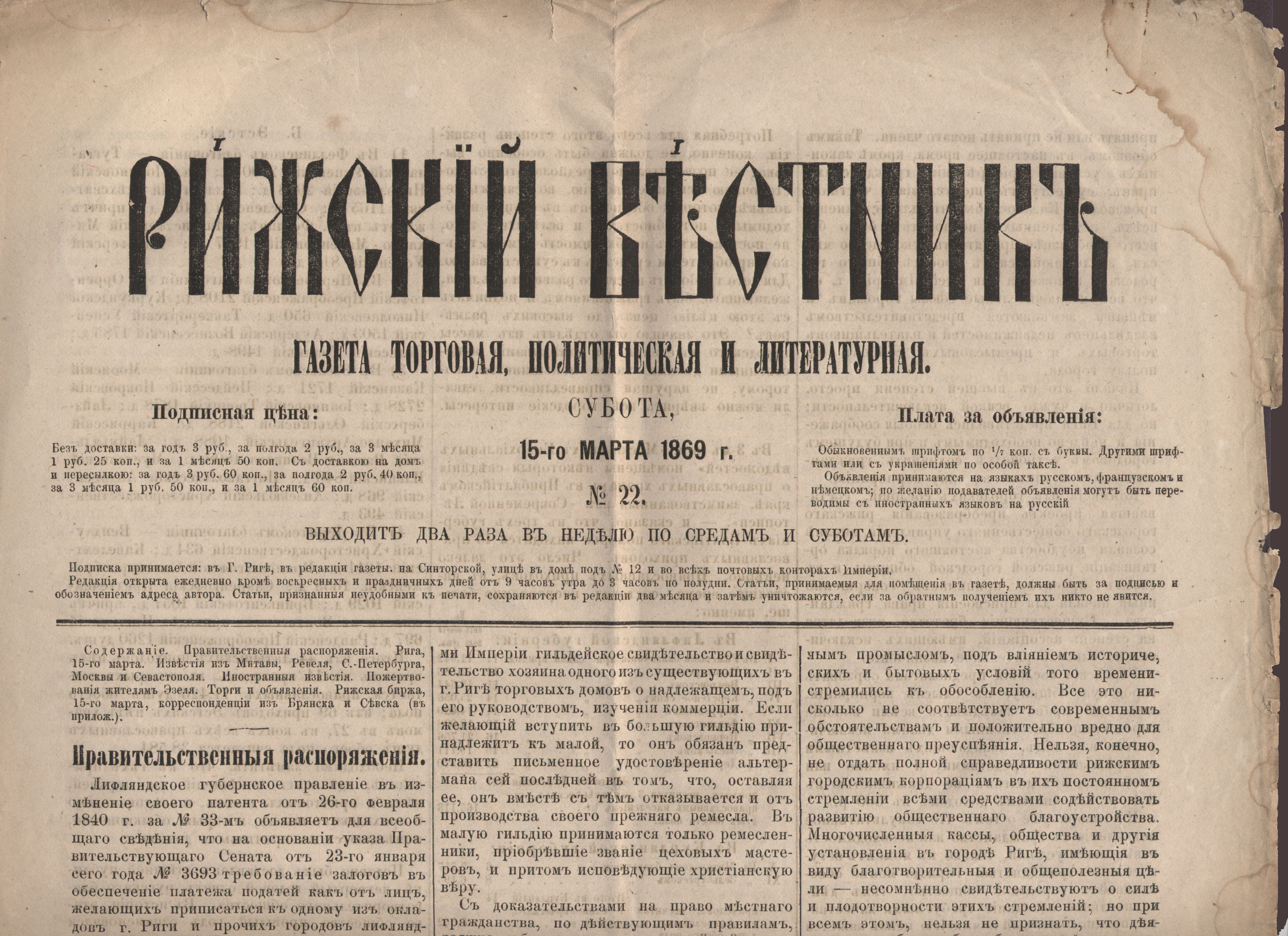 Rizhskij Vestnik (Рижский Вестник), masthead and top half of page 1, Issue #22, March 15, 1869. Founded in 1869 and published by Evgraf Vasilyevich Cheshikhin (Евграф Васильевич Чешихин) until his death in 1888.